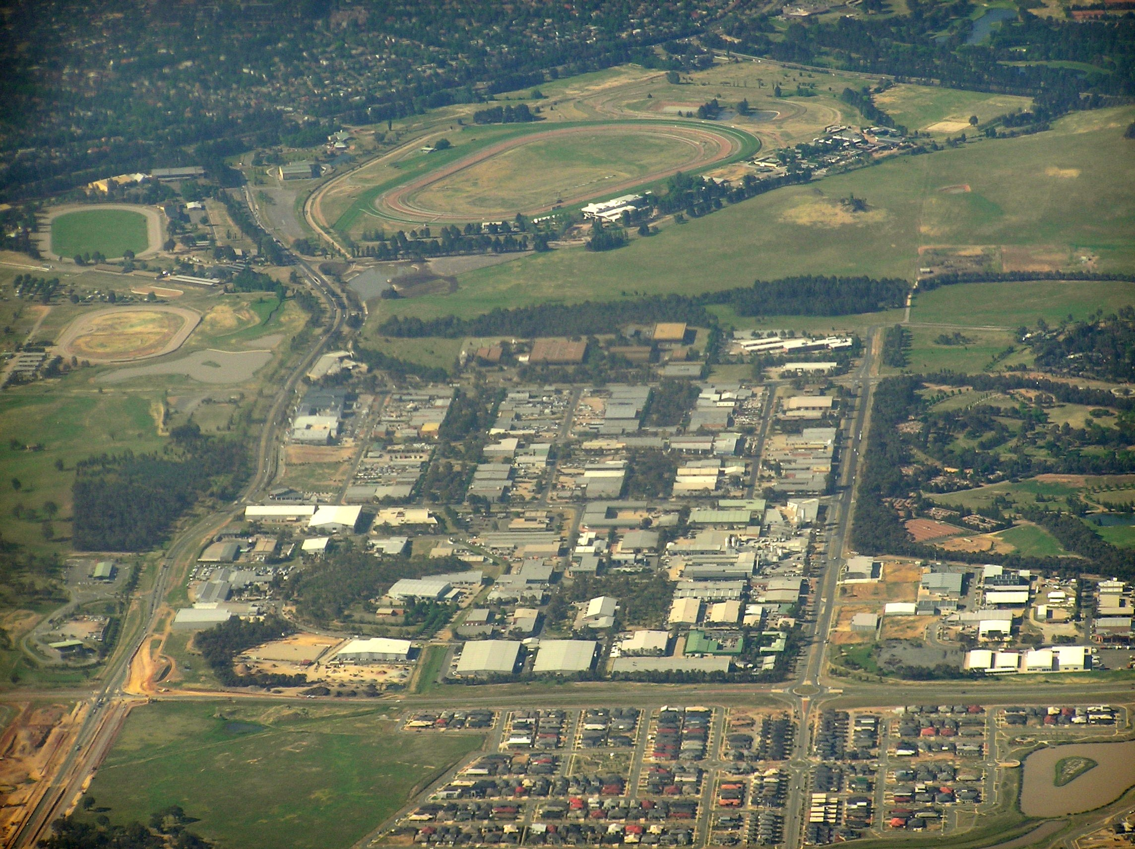 Mitchell Australian Capital Territory from north, Franklin in foreground